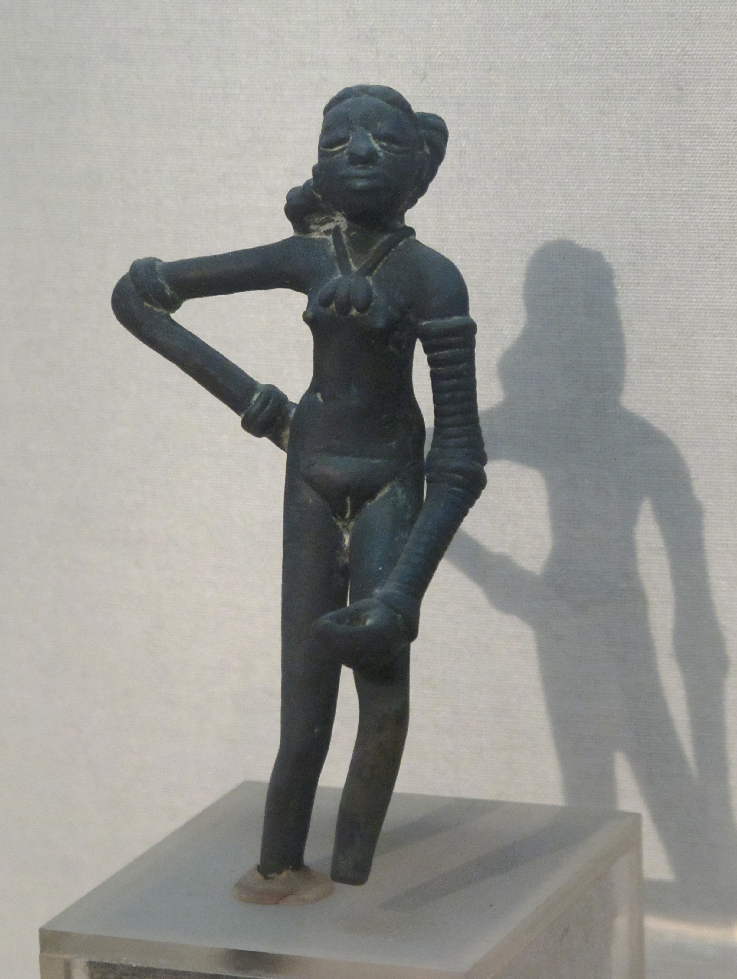 Copper "Dancing girl" statuette. 14 cm high. Found in 1926 in a house in Mohenjo-daro.